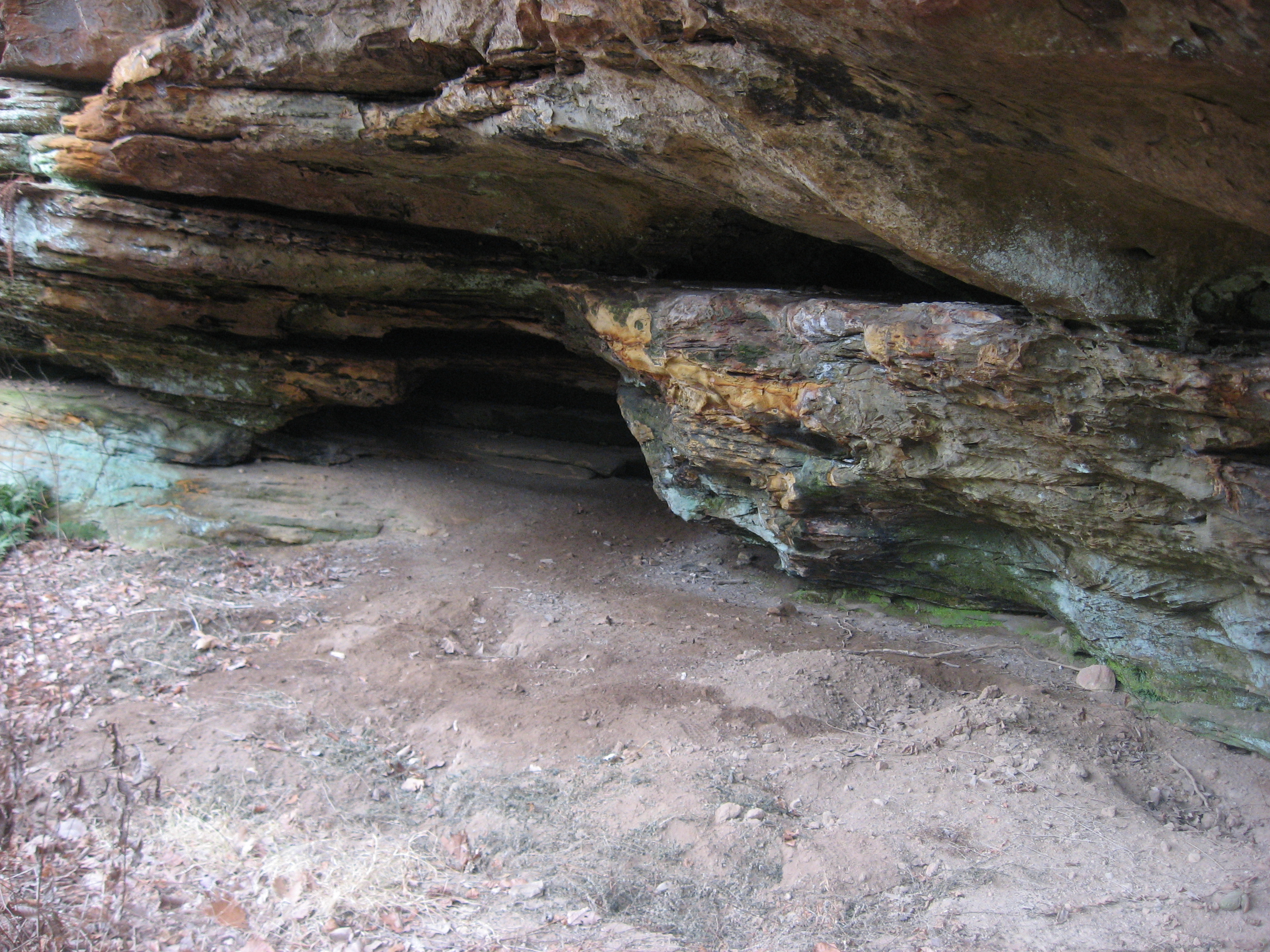 Floor of site 12PE98, one of the Rockhouse Cliffs Rockshelters, located at the mouth of Rockhouse Hollow in the Hoosier National Forest northwest of Derby in Union Township, Perry County, Indiana, United States. The rockshelters are archaeological sites and are listed together on the National Register of Historic Places.